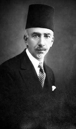 Prime Minister Ata al-Ayyubi, who headed an interim government in Syria, supervising parliamentary elections, in 1936 and 1943.